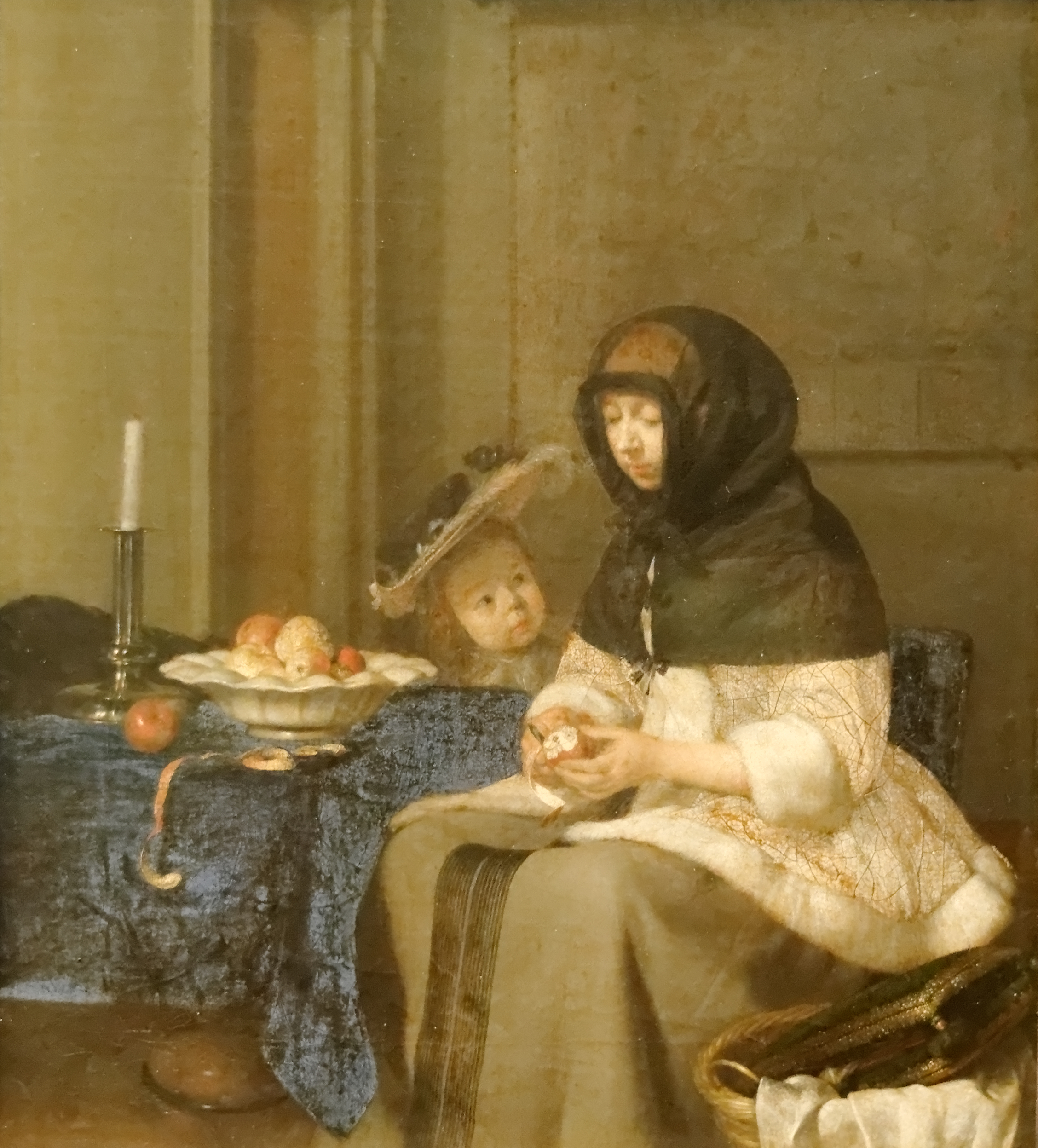 The appel peeler. Gerard ter Borch. Kunsthistorisches Museum, Vienna (Austria)